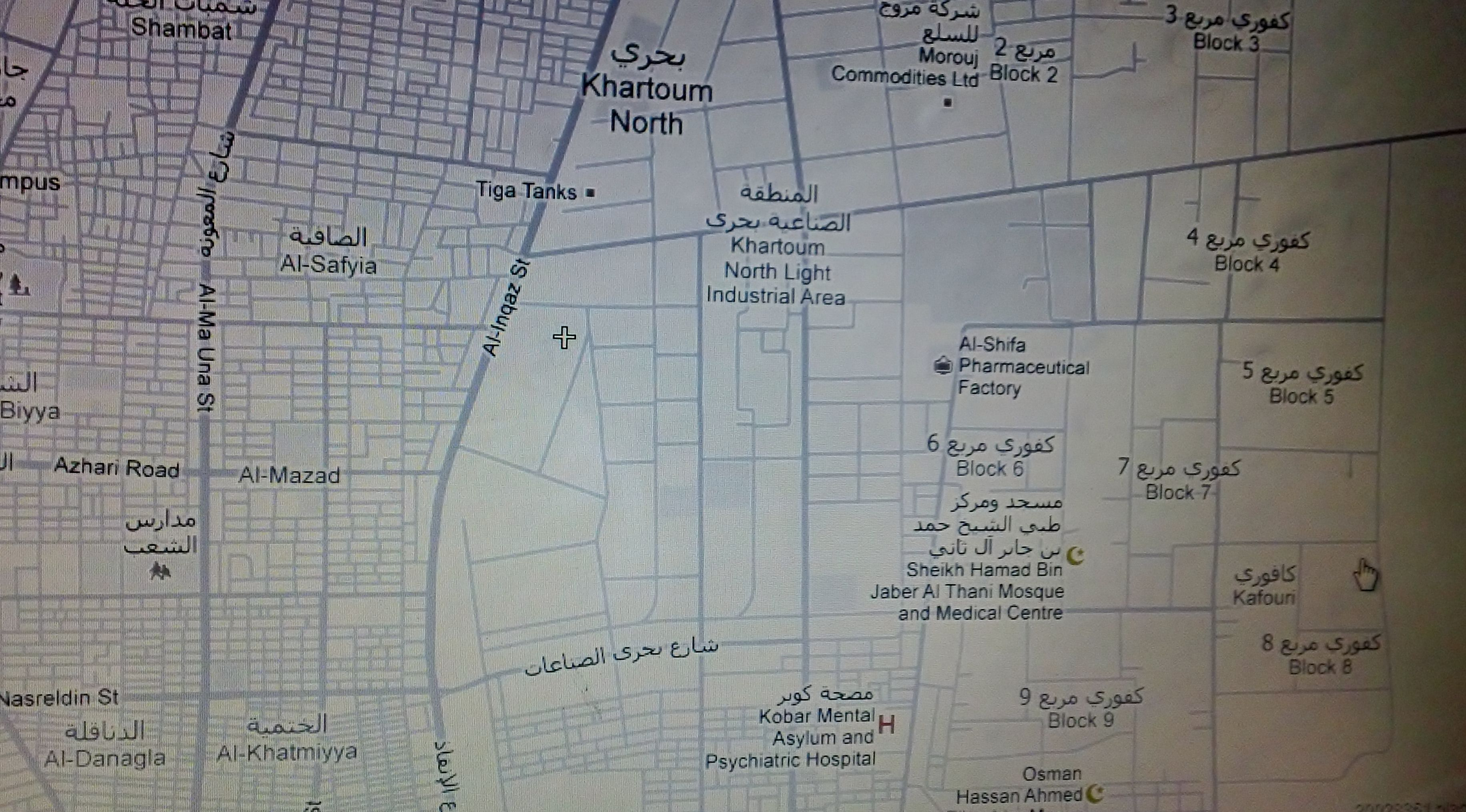 Sudan-Khartoum Bahri- areas